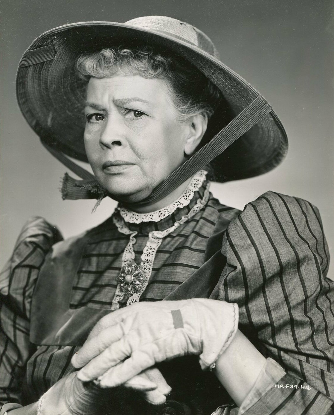 Kathleen Howard in Miss Polly - publicity still (cropped)